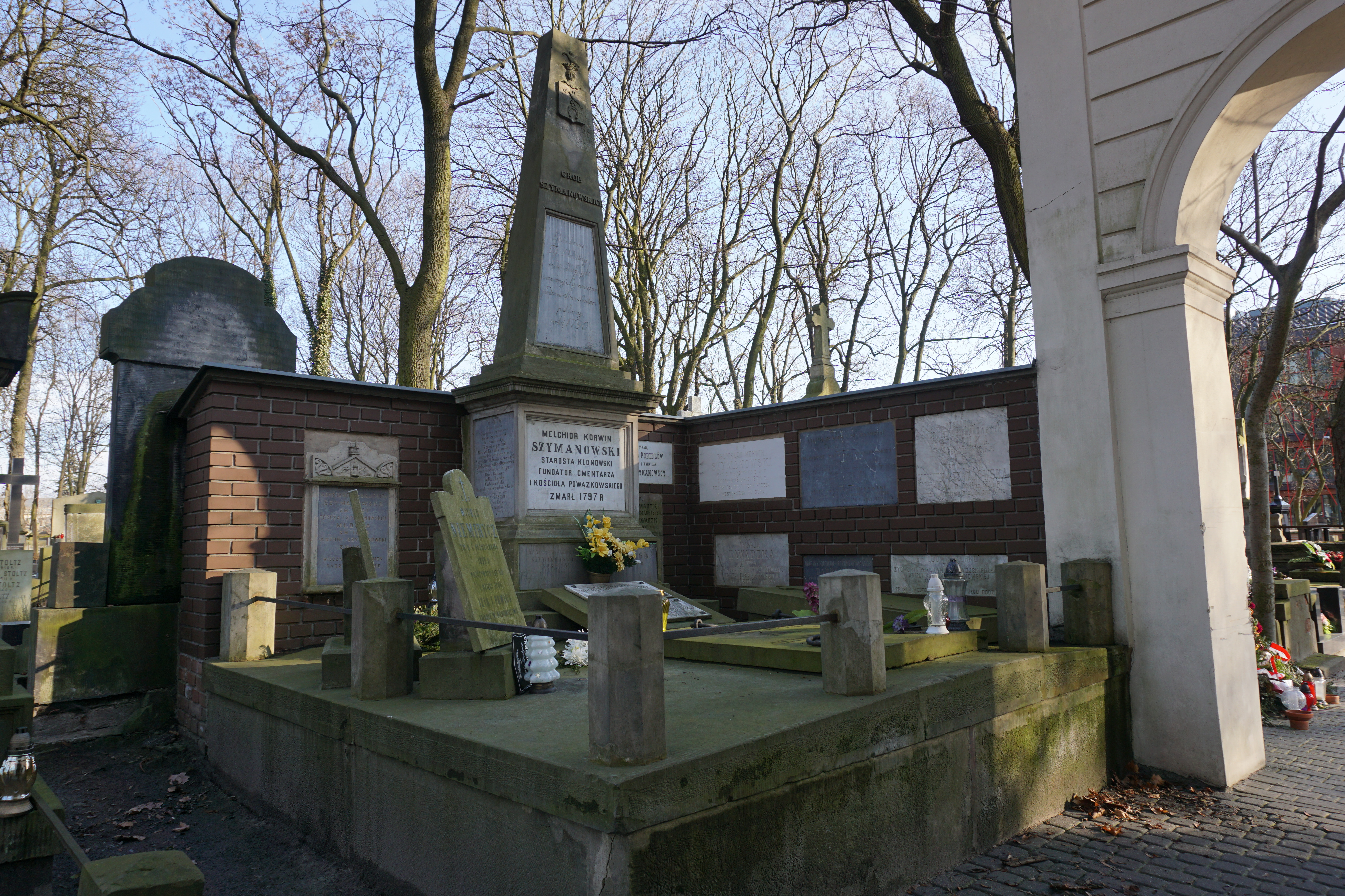 The grave of Ludwik Turno at the Powązki Cemetery (section 163, row 6, grave 6, 7, 8)